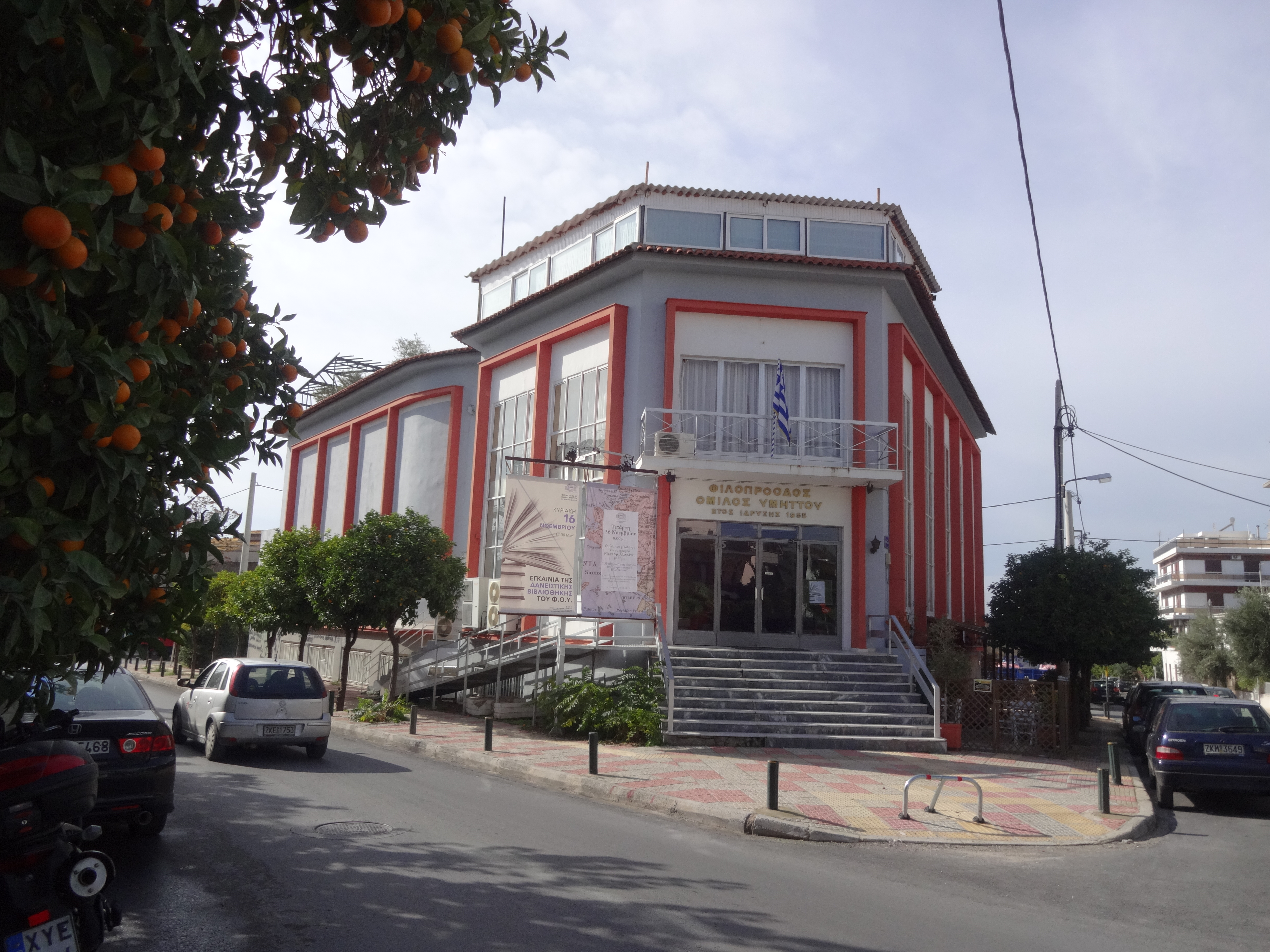 Cultural center in the municipality of Ymittos , Athens